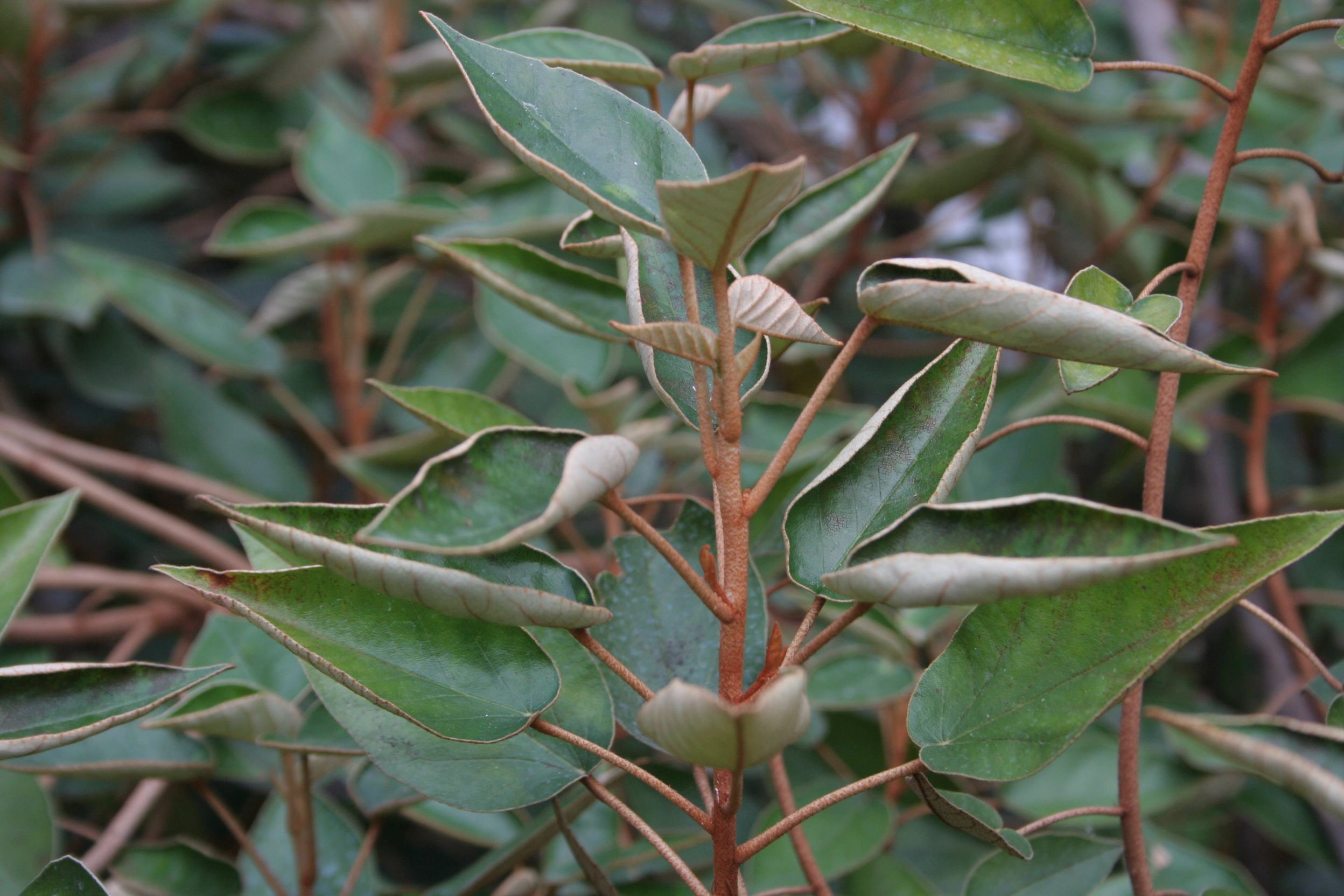 Trochetiopsis melanoxylon in Conservatoire botanique national de Brest. Mislabelled picture. This picture shows not Trochetiopsis melanoxylon because it became extinct in the 18th century. --Melly42 04:23, 24 December 2007(UTC) This is Trochetiopsis ebenus (dark green leaves with brown hairs, see The Trochetiopsis Page. - User:Thiotrix, 21 October 2016 )